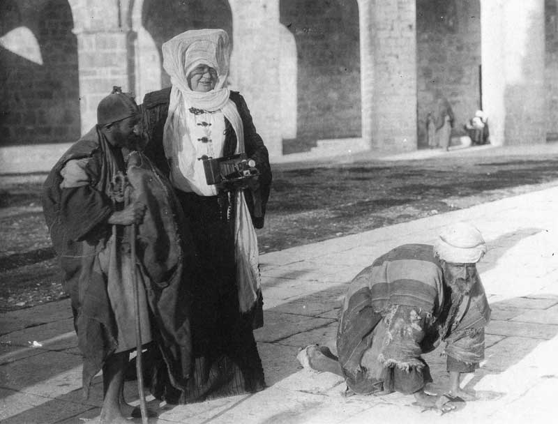 Madame Lydia Mamroev Mountford holding a stereo camera on a Palestinian street.